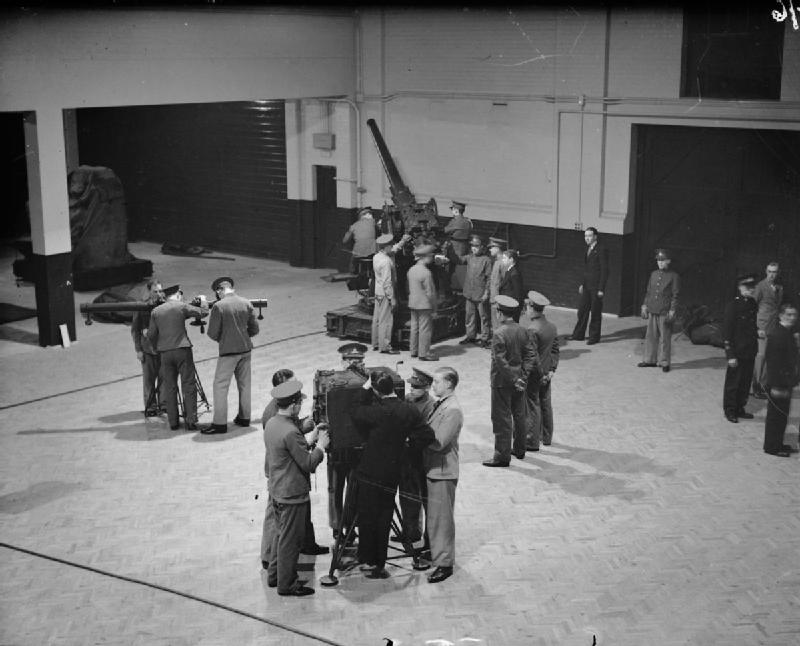 Men of a Territorial Army Anti-Aircraft Battery training on a 3 inch anti-aircraft gun, aircraft height finder and predictor in their drill hall.